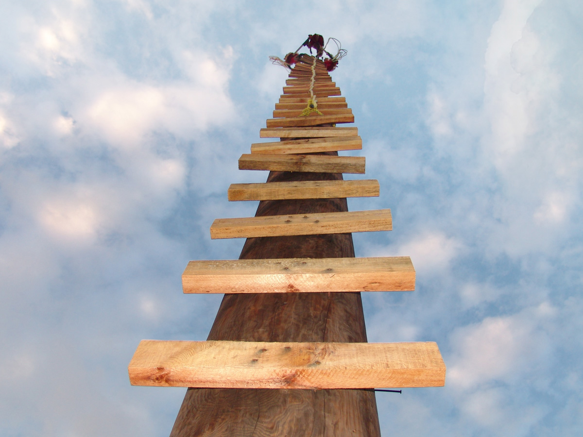 This photo is of stairs that measure more than 50 mts. It arrives are the "Papantla rockets". // This is a photo of a ladder that measures more than 50 mts. It belongs and is used by the "Papantla flyers". I liked it because the sky made the image beautiful.